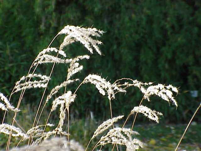 Species: Miscanthus oligostachyus Family: Poaceae Image No. 5